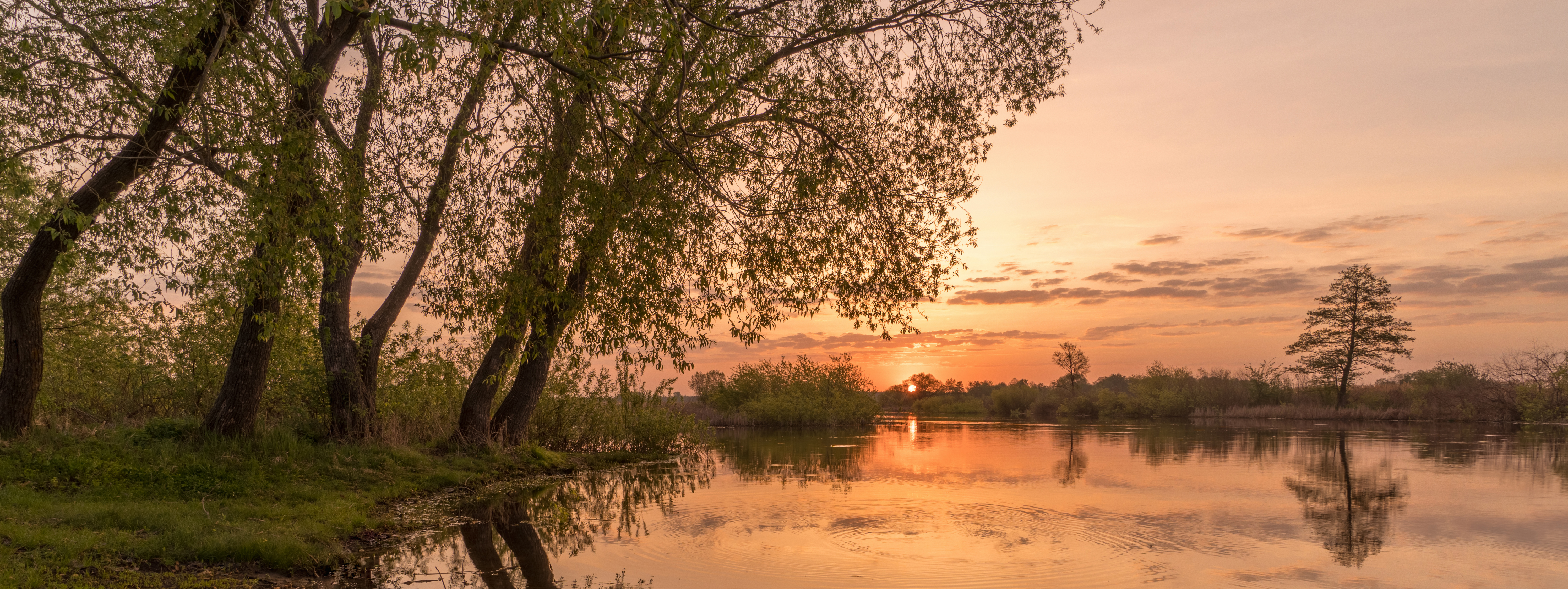 Dawn at the Sula River, Nyzhnosulskyi National Nature Park, Orzhitskyi borough, Poltava Oblast, Ukraine